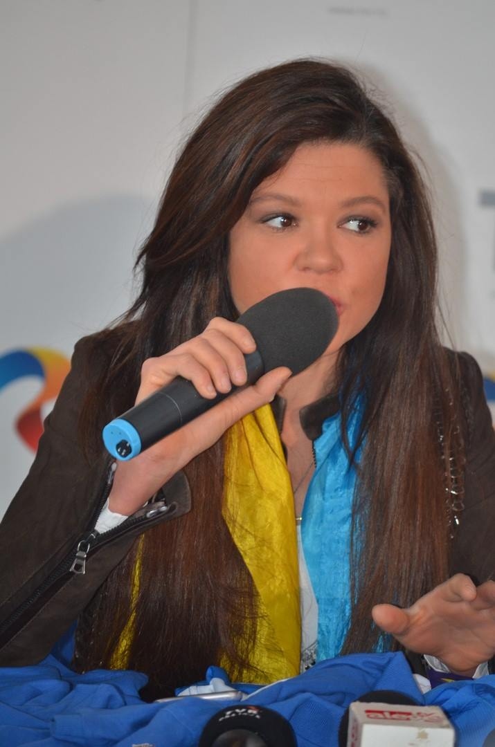 Ukrainian singer Ruslana at her press conference in Craiova, Romania (March 8th 2015)